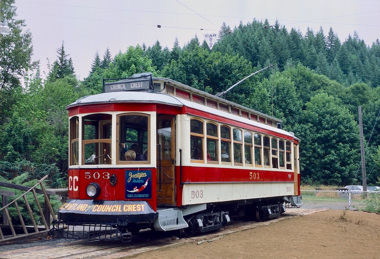 Portland "Council Crest" Brill streetcar 503 at the terminus of the passenger line at the Trolley Park museum (Glenwood, Oregon), the former location of the Oregon Electric Railway Museum, in 1986. During its service career in Portland, the ten streetcars in this series ran on narrow-gauge (3'6") trucks, but by the time of this photo car 503's original trucks had been replaced by standard-gauge trucks from an ex-Melbourne W2-type streetcar, to allow the car to operate on the museum line and in San Francisco (where it was on loan in 1983 and again in 1985). The museum closed at this location in 1995 and opened at its new location, in Brooks, Oregon, in 1996.